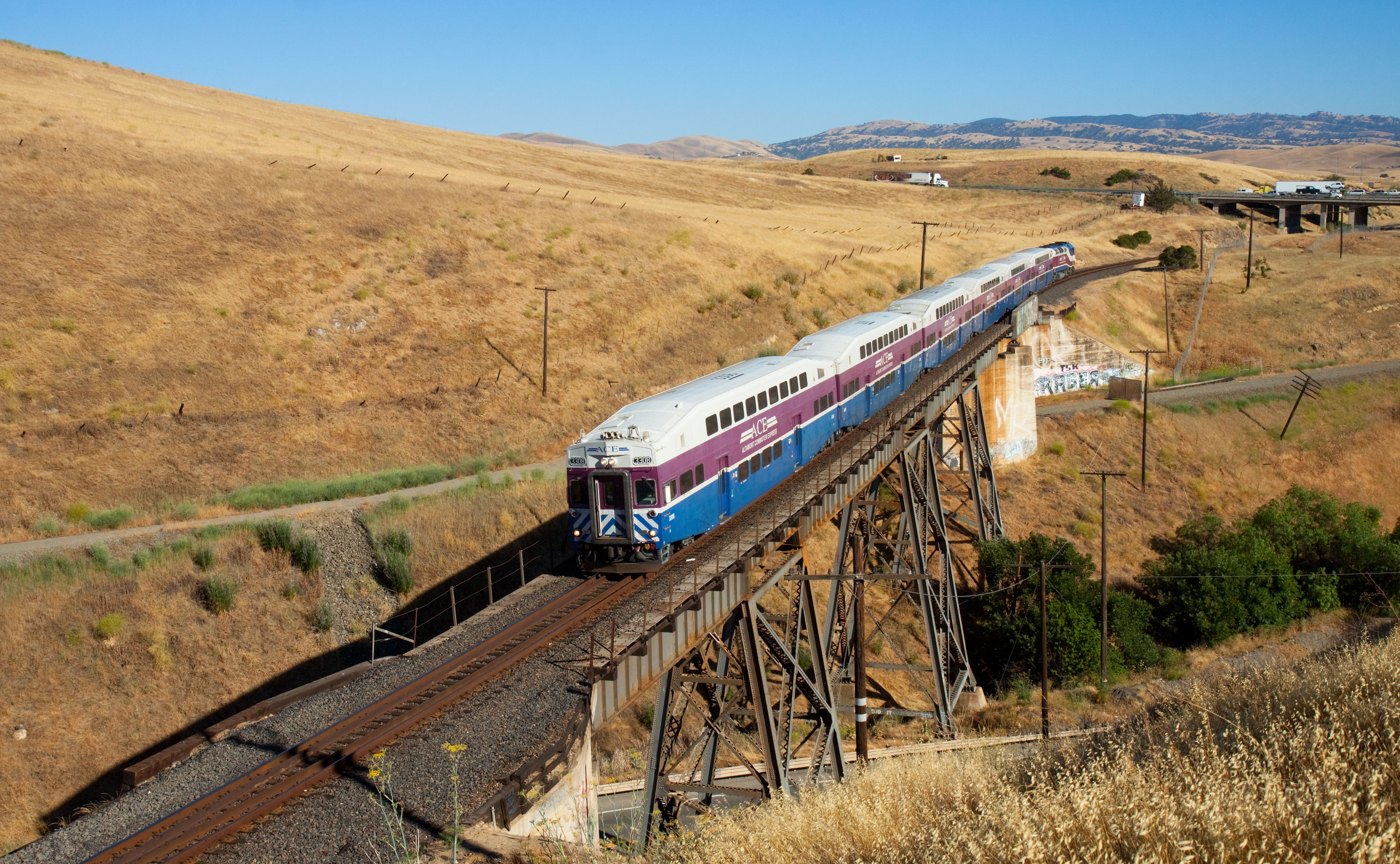 Altamont Commuter Express crossing the bridge over the Altamont Pass Road while climbing Altamont Pass. The train is hauled by an EMD F40PH and consists of Bombardier Bilevel VI coaches, with the cab car leading.